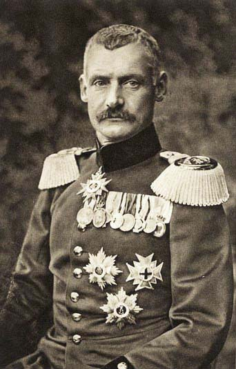 Ruprecht of Bavaria